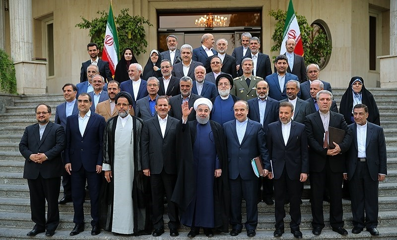 Hassan Rouhani's second cabinet members after their first meeting